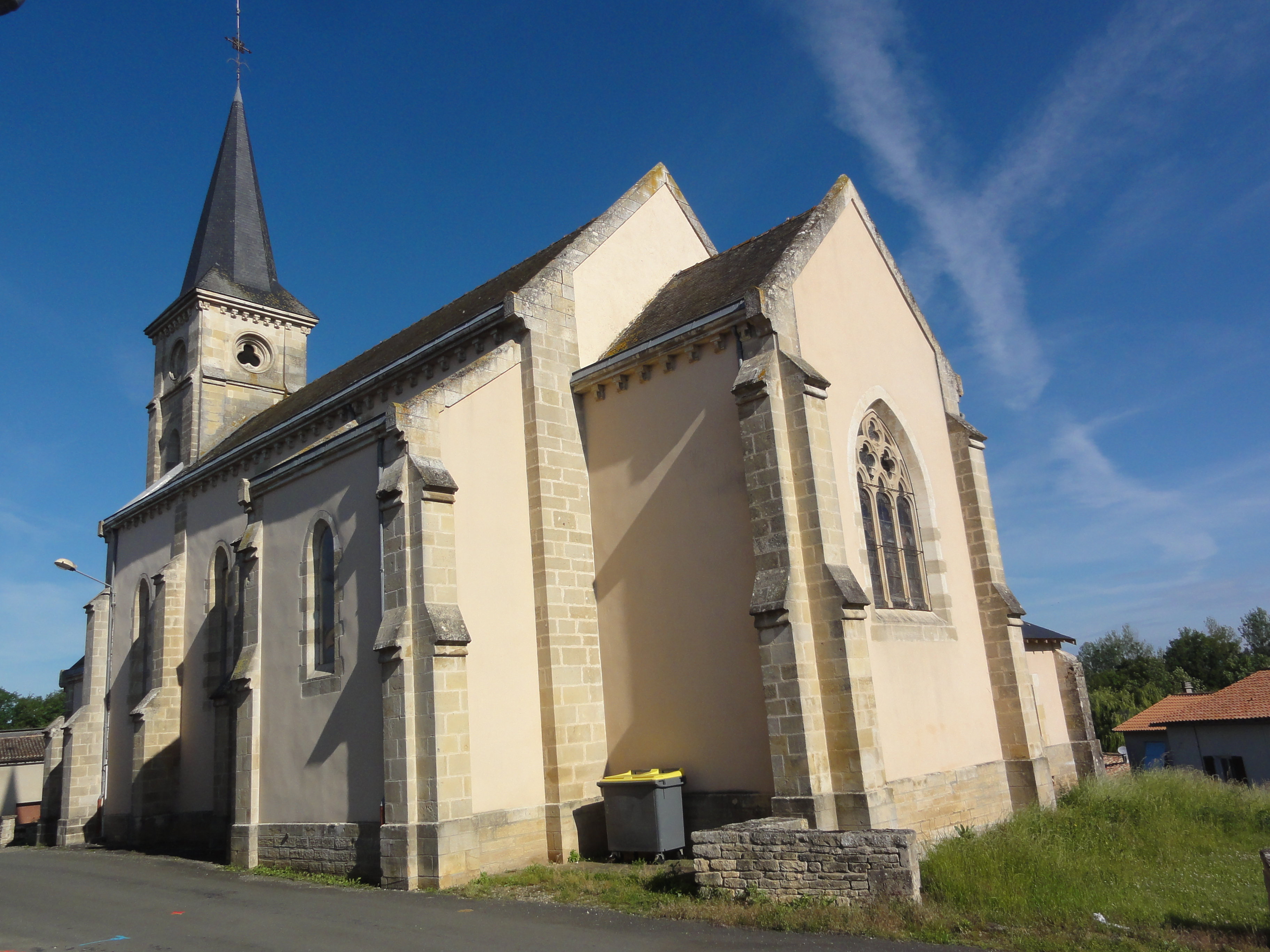 Chey (Deux-Sèvres) église, extérieur